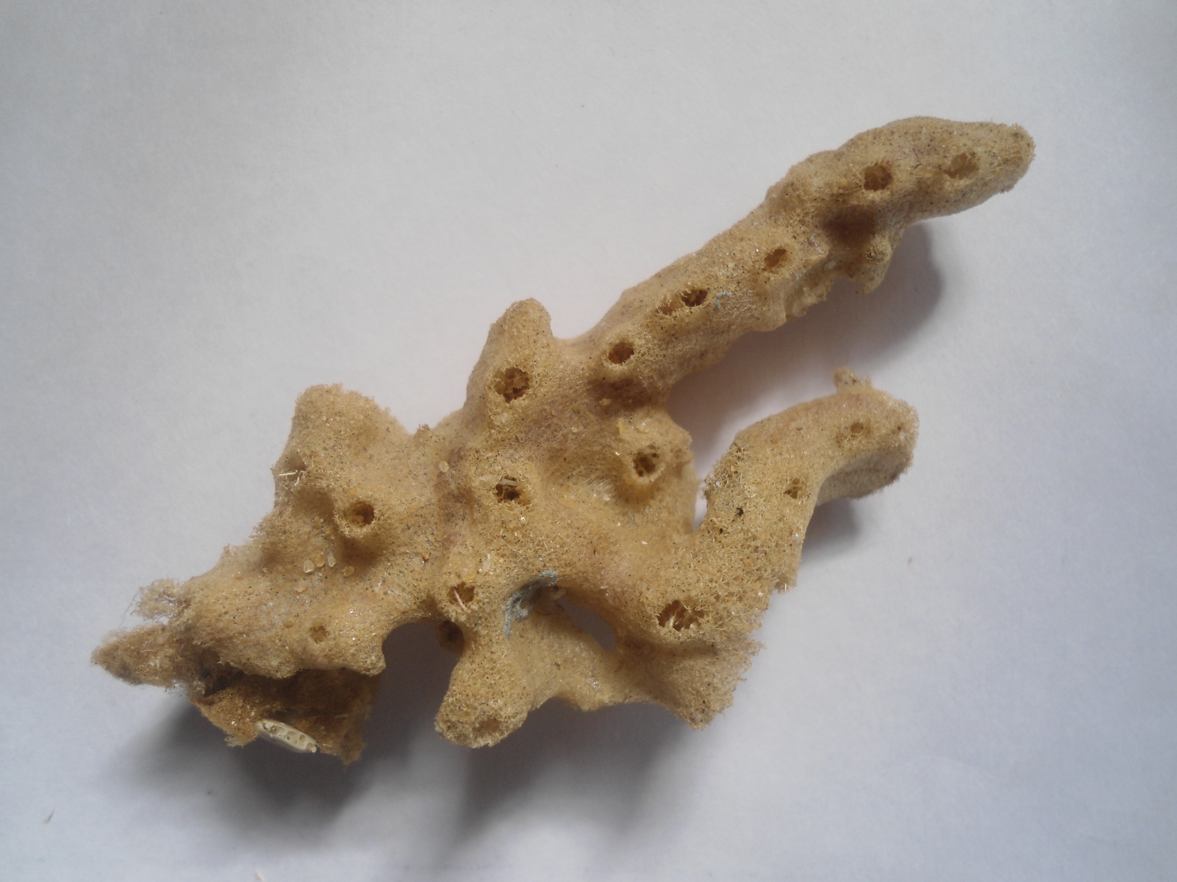 Ephydatia (Spongillidae) in Bay of Bengal, collected from Rushikonda beach, Visakhapatnam